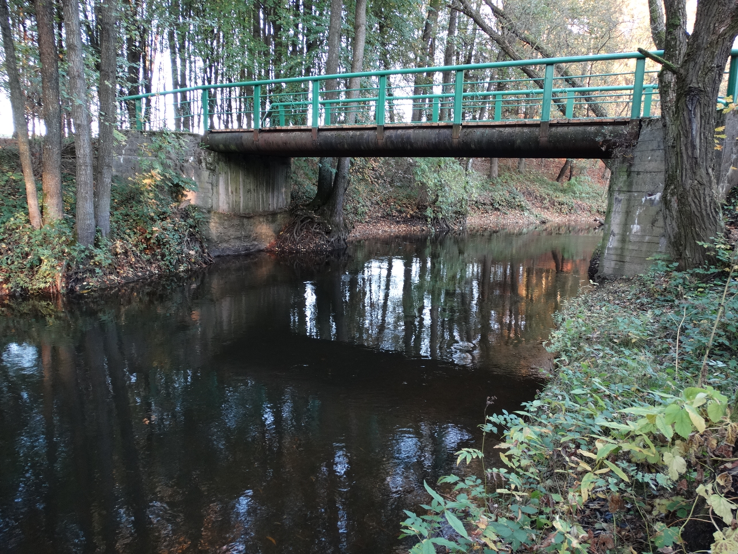 Dovinė River, Marijampolė municipality, Lithuania